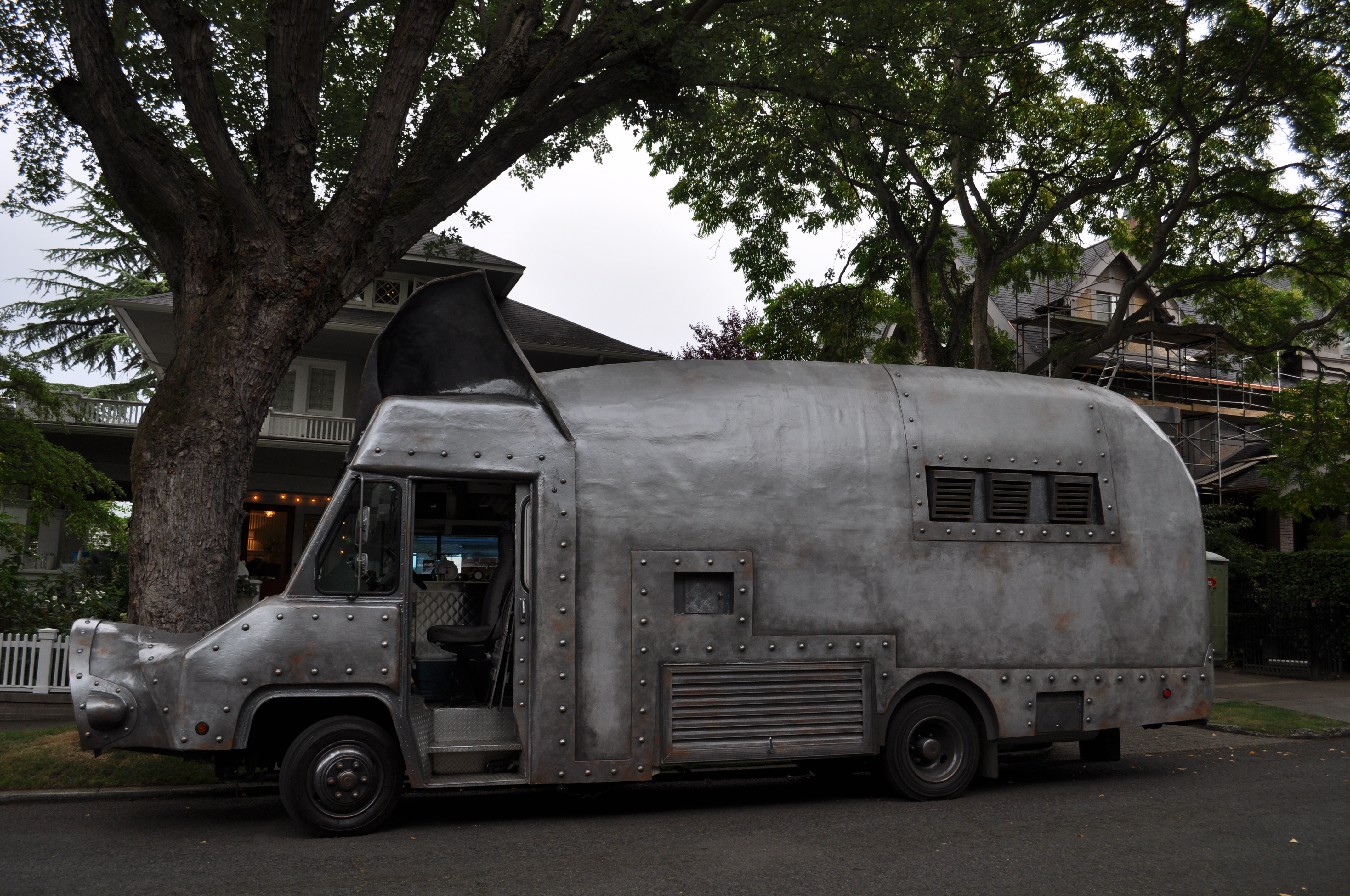 "Maximus Minimus", kitchen truck with a pork theme, parked in front of a house on 22nd Avenue E, Capitol Hill, Seattle, Washington, where it was catering an event.